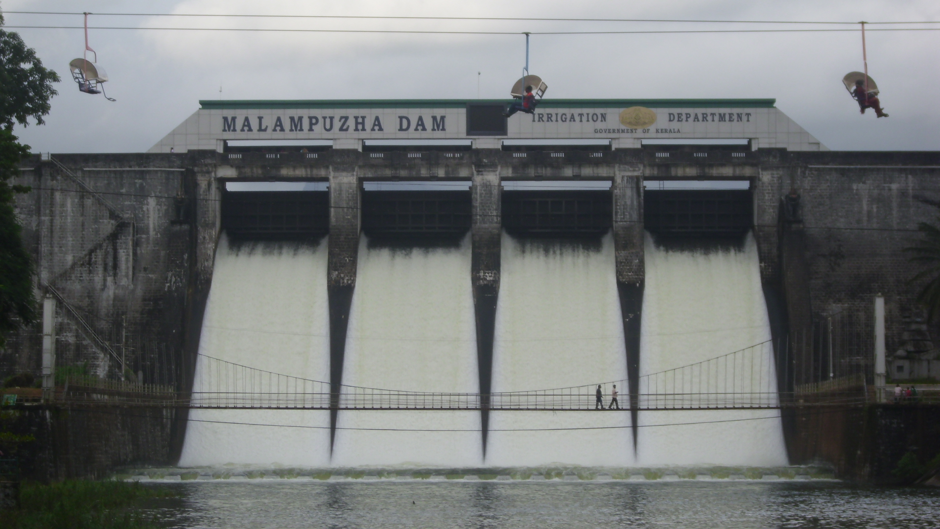 Malampuzha_Dam